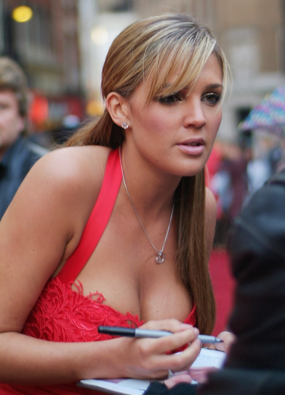 Danielle Lloyd in Shooter Movie Premiere 2007.